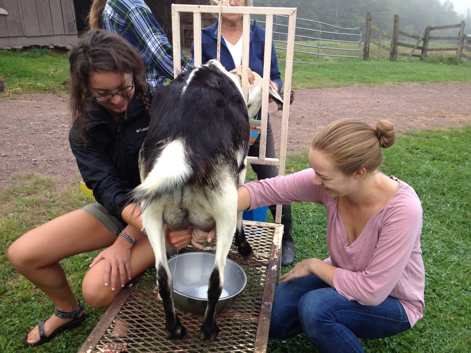 milking a goat in the US northeast